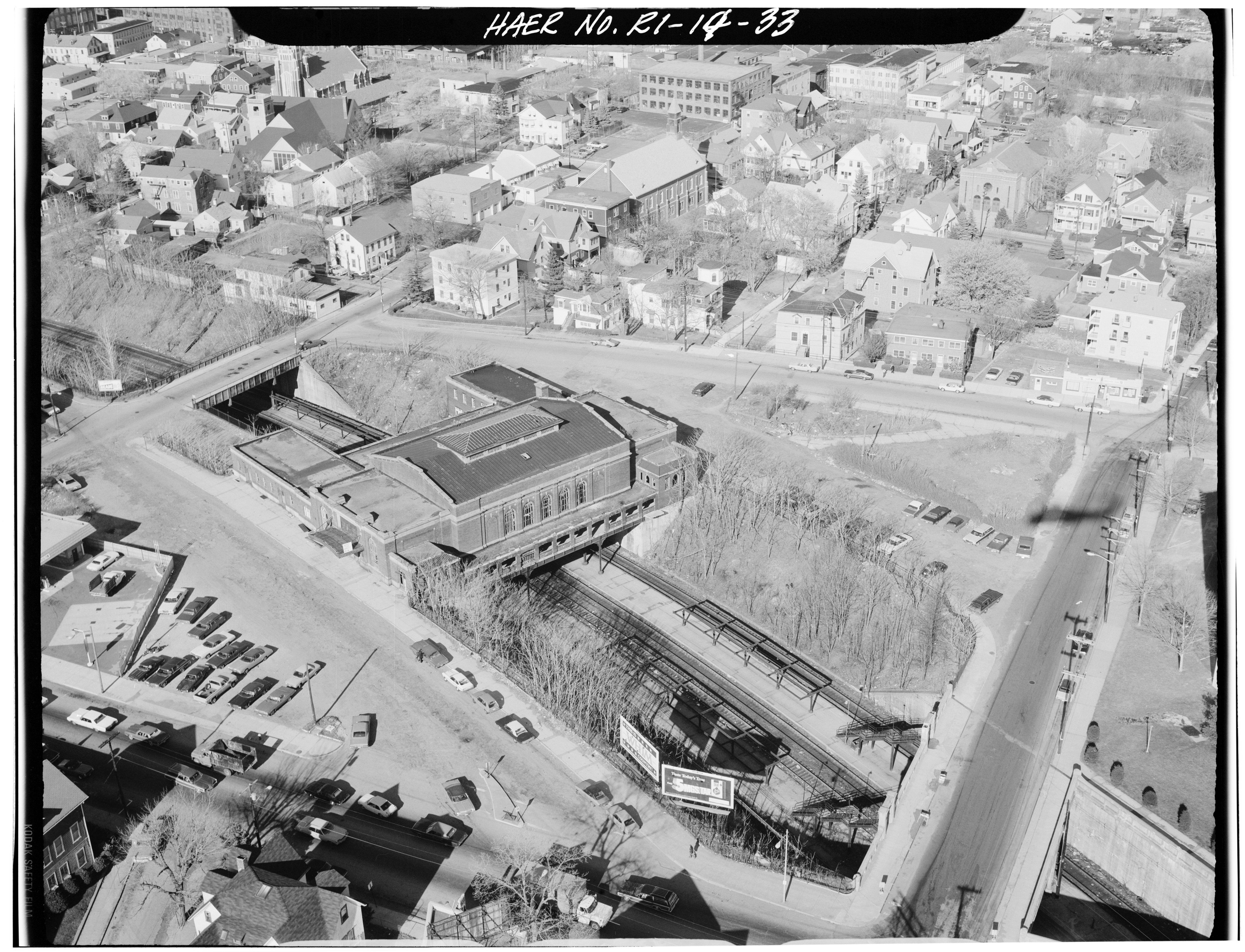 Aerial view of Pawtucket-Central Falls Station in 1977